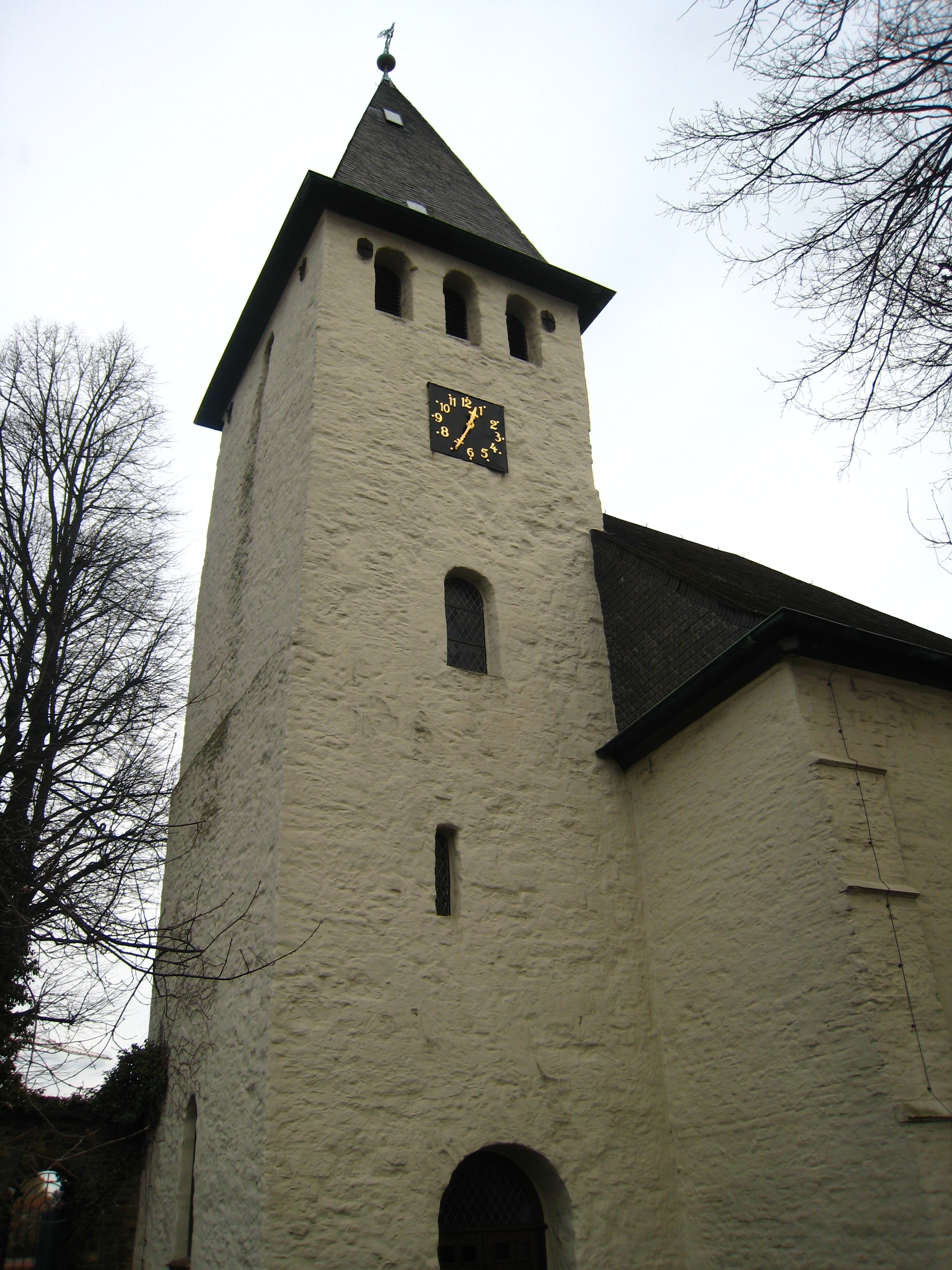 Ev. Kirche Dortmund Wickede, Baudenkmal Nr. A 0281 This is a photograph of an architectural monument. 0281